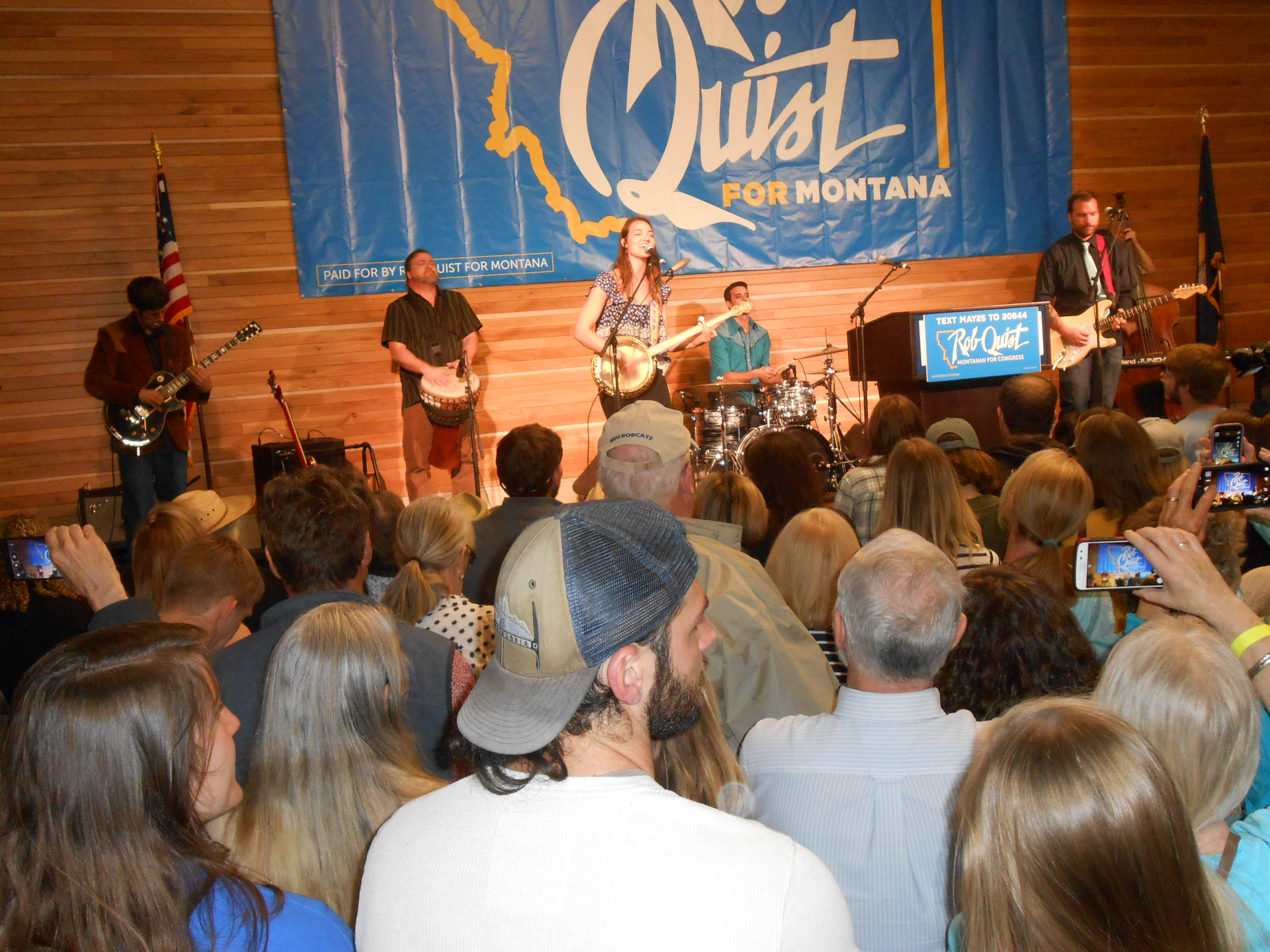 "Team Quist and the Berners" -- featuring Rob Quist's children Halladay (woman with banjo) and Guthrie (guitarist to right of lectern) Rob Quist appears with Senator Bernie Sanders at a campaign rally, Strand Union Building ballroom, Bozeman Montana, Sunday, May 21, 2017